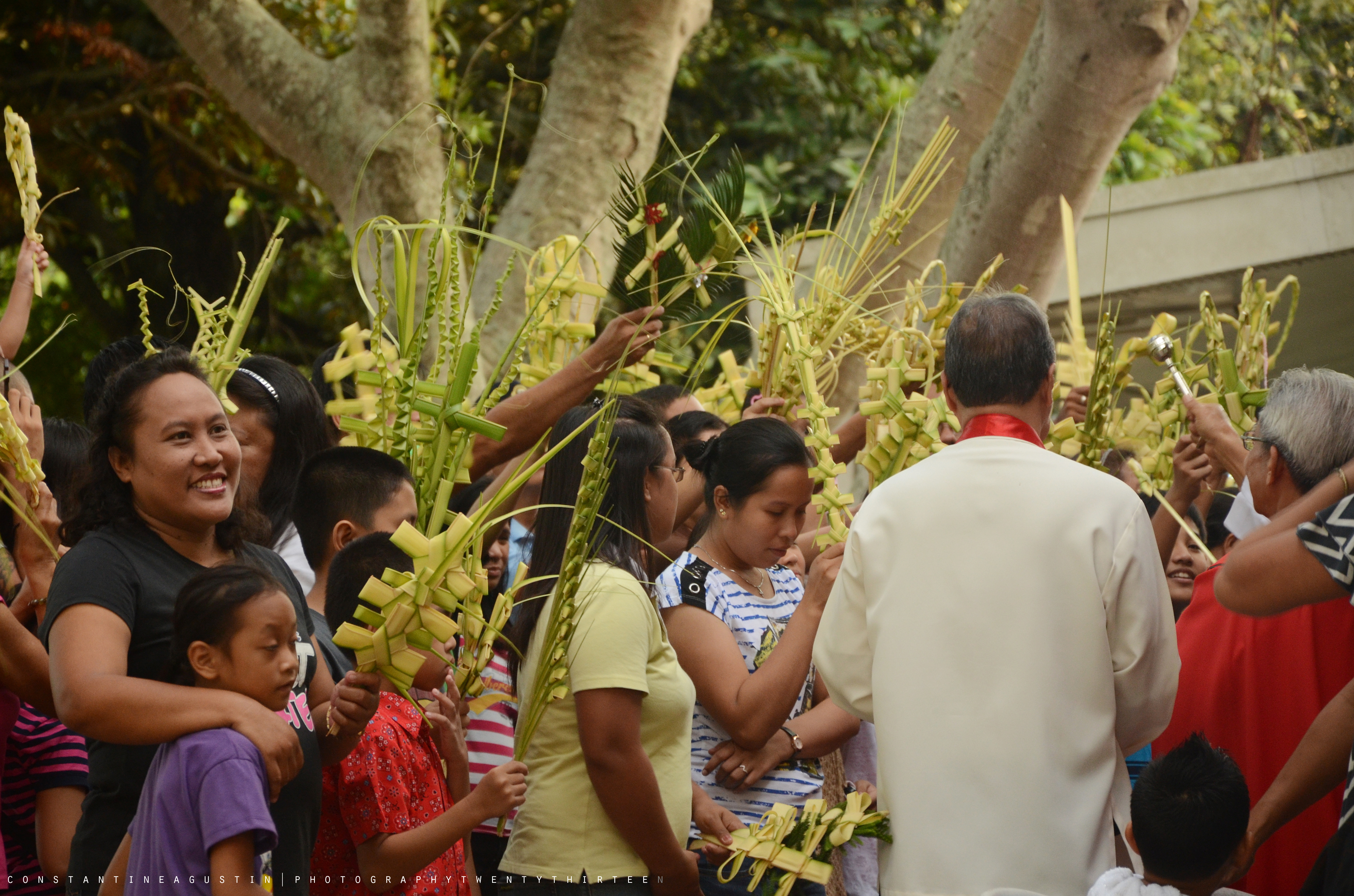 Christianity in Oceania Palm Sunday mass, Davao Filipino people